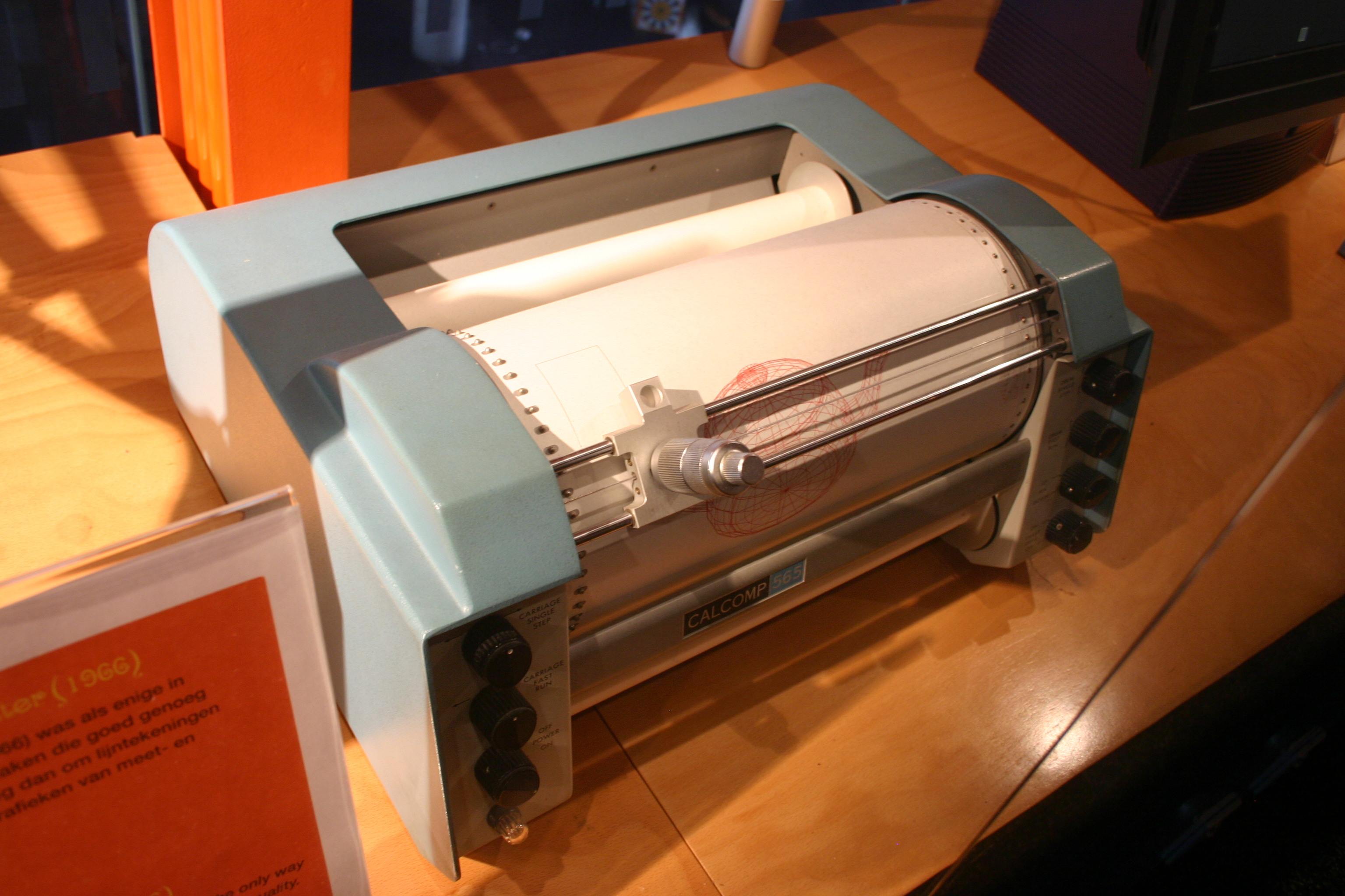 Calcomp 565 drum plotter circa 1966. At the time it was one of the few ways to draw computer-generated pictures of acceptable quality. Examples are line drawings as used in computer-aided design, or graphical representations of computations. It was also sold by IBM as the IBM 1627. A wide carriage model was also available. On display at Nemo Science Center.